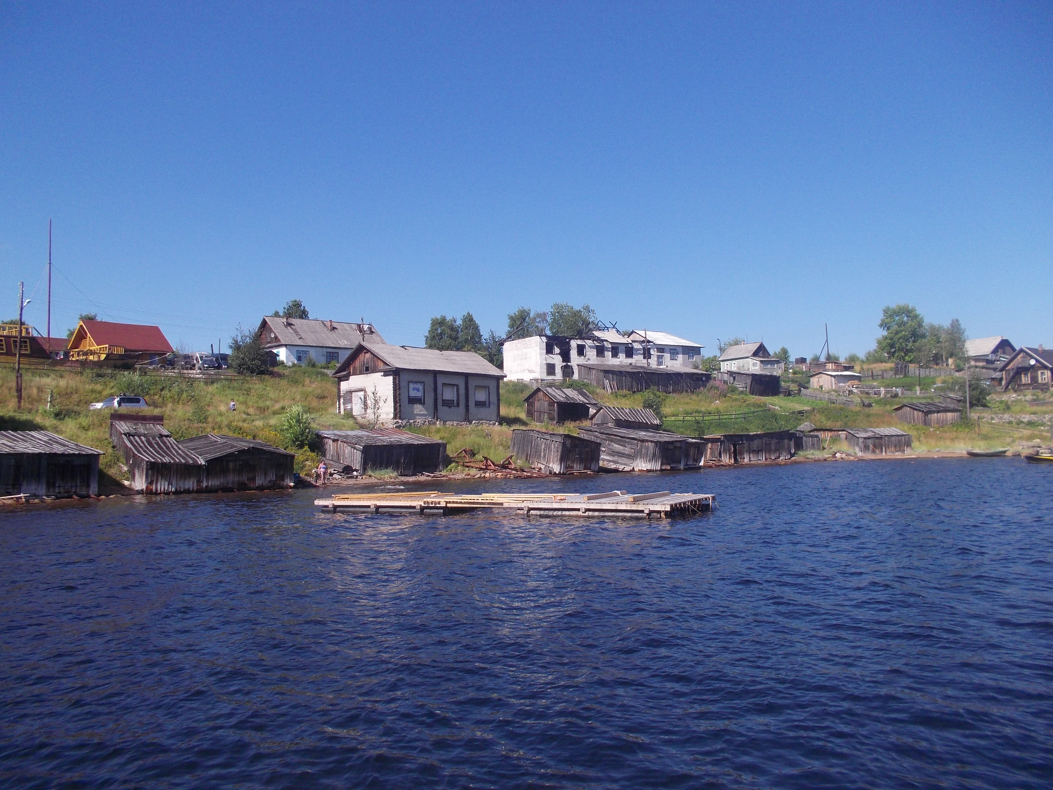 Chupa seashore